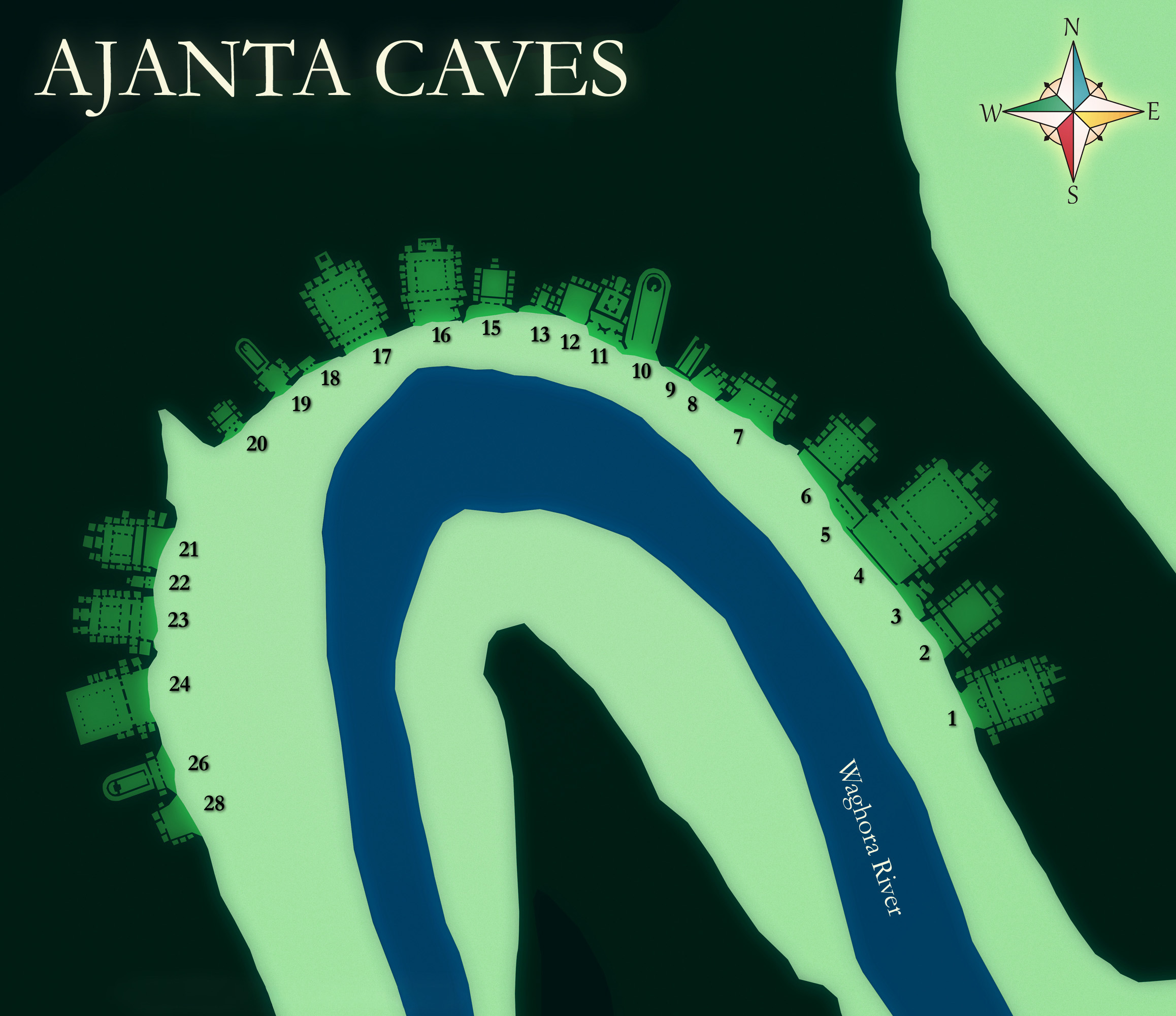 Overview map of Ajanta Caves